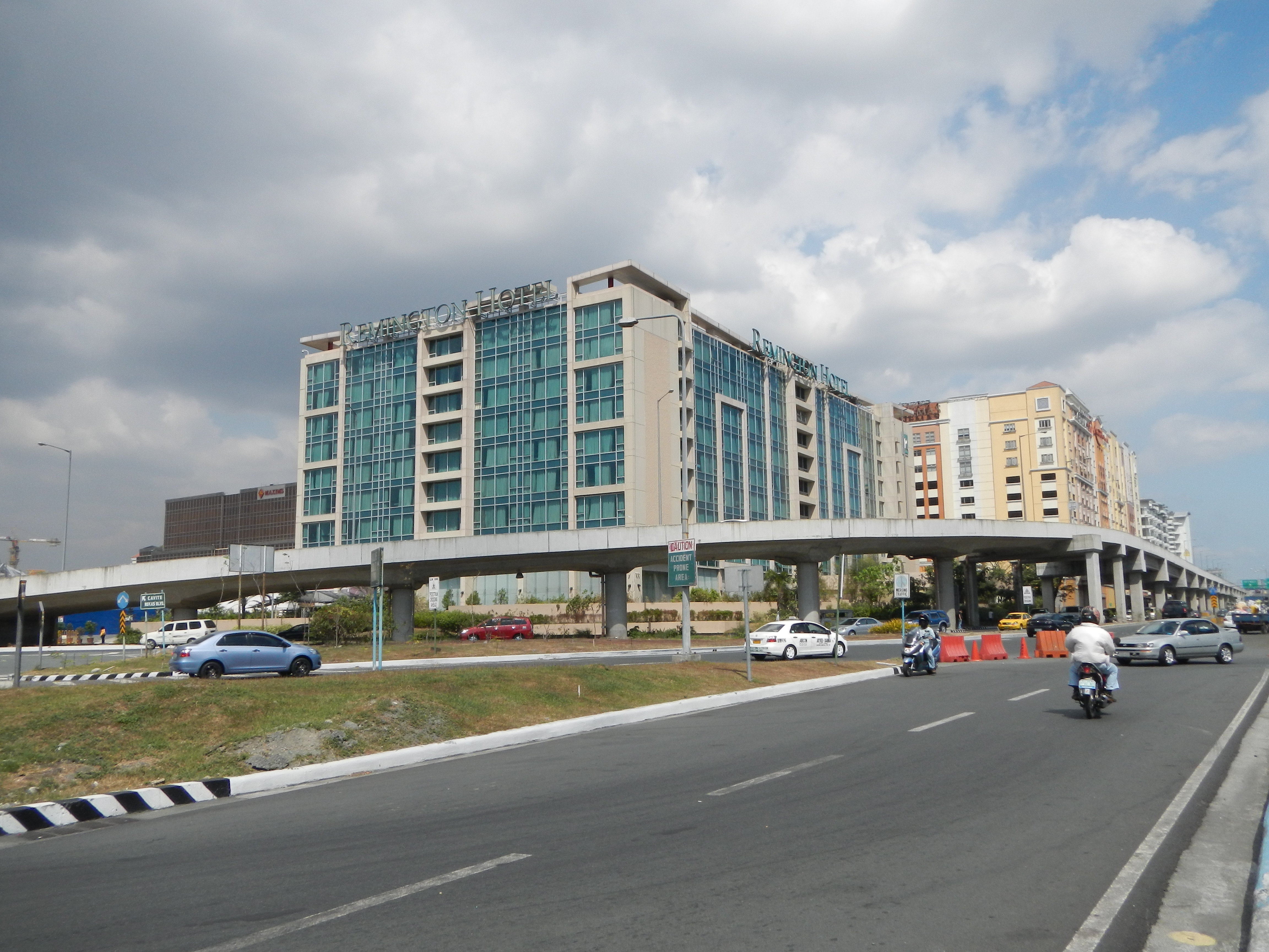 Upload Wizard photos of - Aermacchi SF.260[1] - Villamor Air Base [2] named after Jesús A. Villamor [3] Philippine Air Force [4] locted at Parañaque City and Pasay City, Metro Manila - the - Philippine Air Force Museum or Villamor Air Base Aircraft PAF Museum or Aerospace Museum Villamor Air Base Pasay City [5] --- List of former aircraft of the Philippine Air Force [6] - the Museum includes --- a) The Bell UH-1 Iroquois unofficially Huey [7] Bell UH-1 Iroquois Bell UH-1 family UH-1 Huey, b) North American F-86 Sabre [8] c) Lockheed T-33 [9] T-33 at the Philippine Air Force Museum at Villamor Air Base d) Vought F-8 Crusader redirect from F-8 [10] F-8H Crusader of the Philippine Air Force. c. 1978 e) North American F-86D Sabre [11] Acquired 20 F-86Ds, beginning 1957; part of the U.S. military assistance package f) F-86D of the Philippine Air Force Northrop F-5A/B Freedom Fighter and the F-5E/F Tiger II [12] [13] the Philippine Air Force acquired 37 F-5A/B from 1965 to 1998 g) Sikorsky S-62 [14] S-62B One S-62 was fitted with the main rotor system of the S-58 h) Douglas C-47 Skytrain [15] Philippine Air Force President Magsaysay of the Philippines was killed in the crash of a Philippine Air Force C-47 in 1957 Some were ex-RAAF C-47s received as foreign aid.[16] i) Grumman HU-16 Albatross [17] j) NAMC YS-11[18] k) Beechcraft T-34 Mentor[19] Beechcraft T-34 Mentor l) Cessna T-41 Mescalero[20] m) North American T-6 Texan[21] n) North American T-28 Trojan [22] T-28C 140533 - Villamor AB in Manila, The Philippines.